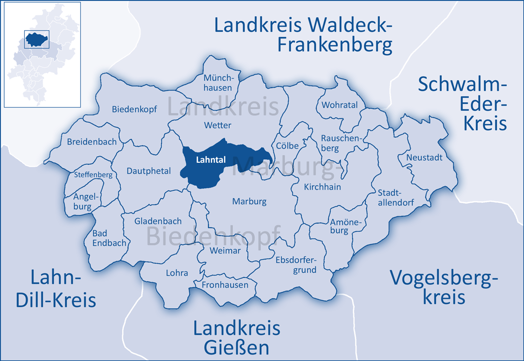 The map shows a district in the area of Marburg-Biedenkopf